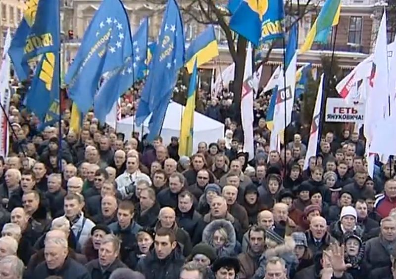 Rise up demonstrations in Lviv